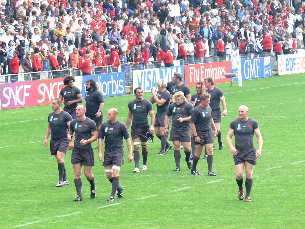 Wales rugby union team in their alternative strip at the 2007 Rugby World Cup